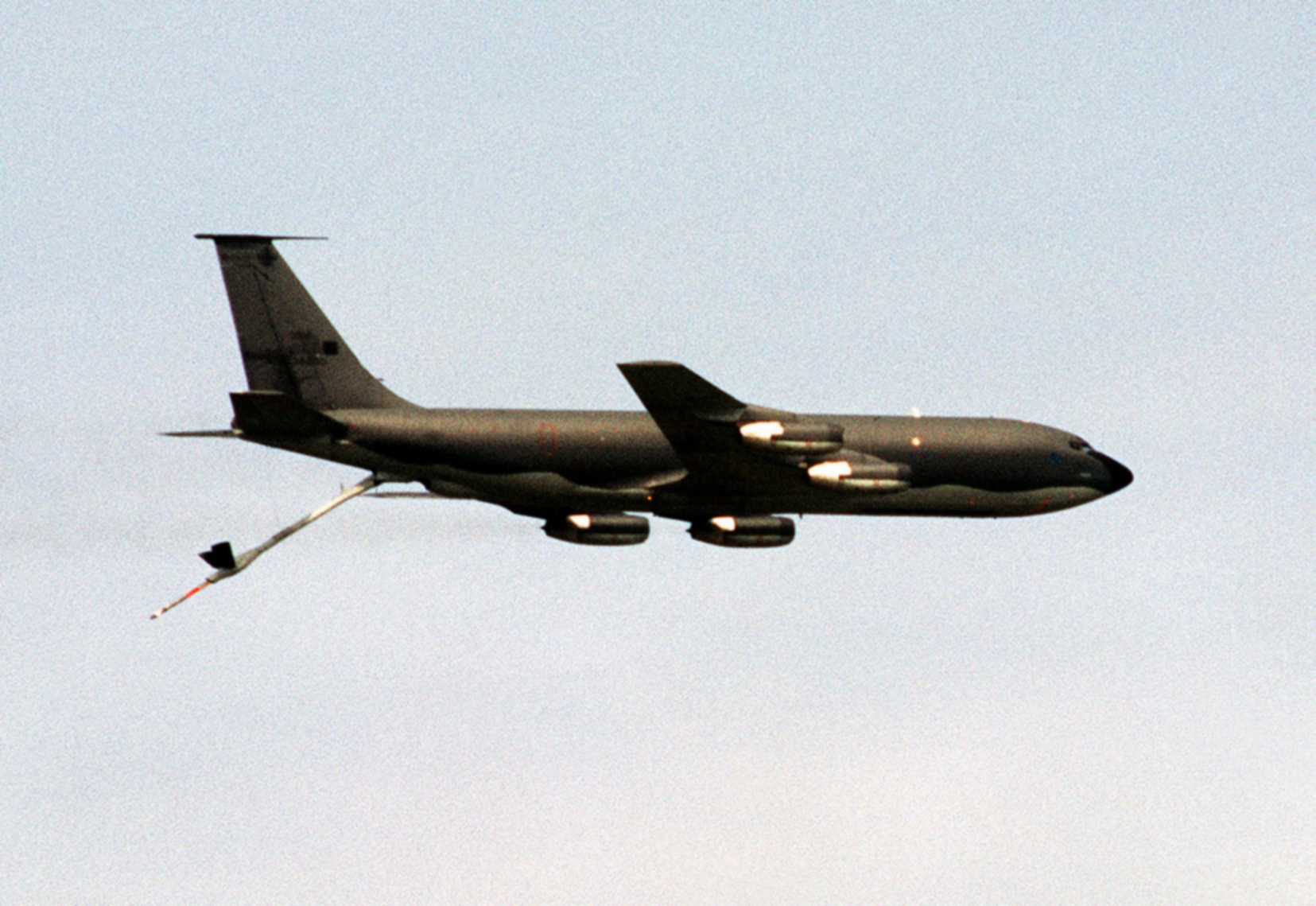 A U.S. Air Force Boeing KC-135A Stratotanker aircraft from the 2nd Bombardement Wing flies a mission during "Proud Shield '92", a USAF Strategic Air Command bombing and navigation competition at Barksdale Air Force Base, Louisiana (USA). Note the extended refueling boom and the USAF tanker aircraft camouflage scheme used in the early 1990s. Note: The description says that this is an 71st Air Refueling Squadron aircraft, but the squadron was deactivated on 1 September 1991 The squadron remained active until 1 April 1994.--Lineagegeek (talk) 16:09, 17 September 2013 (UTC)